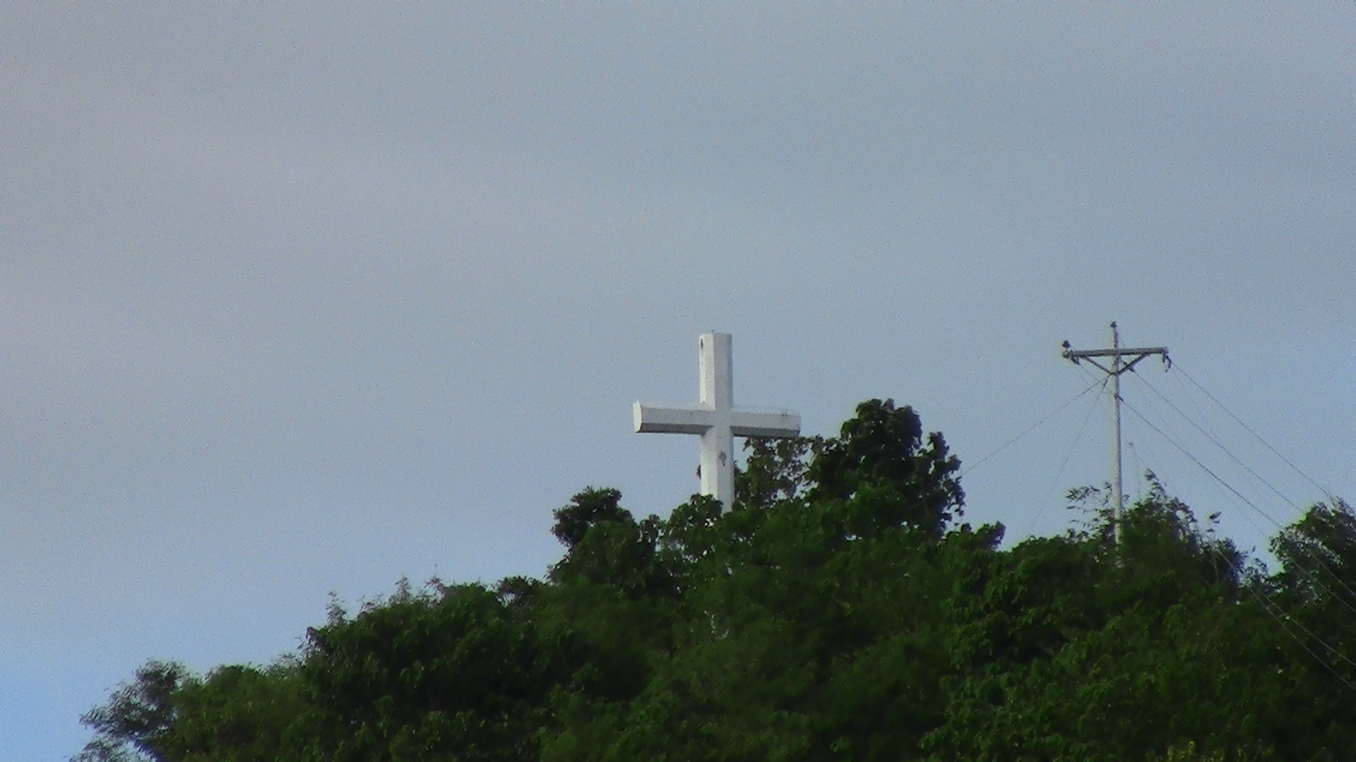 The giant cross atop Guinhangdan Hill, a favorite destination of Holy Week pilgrims. The hill is now a forest reserve.